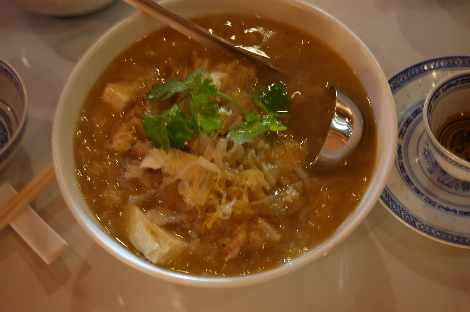 Suan cai stewed with pork and cellophane noodles, a Northeast Chinese specialty